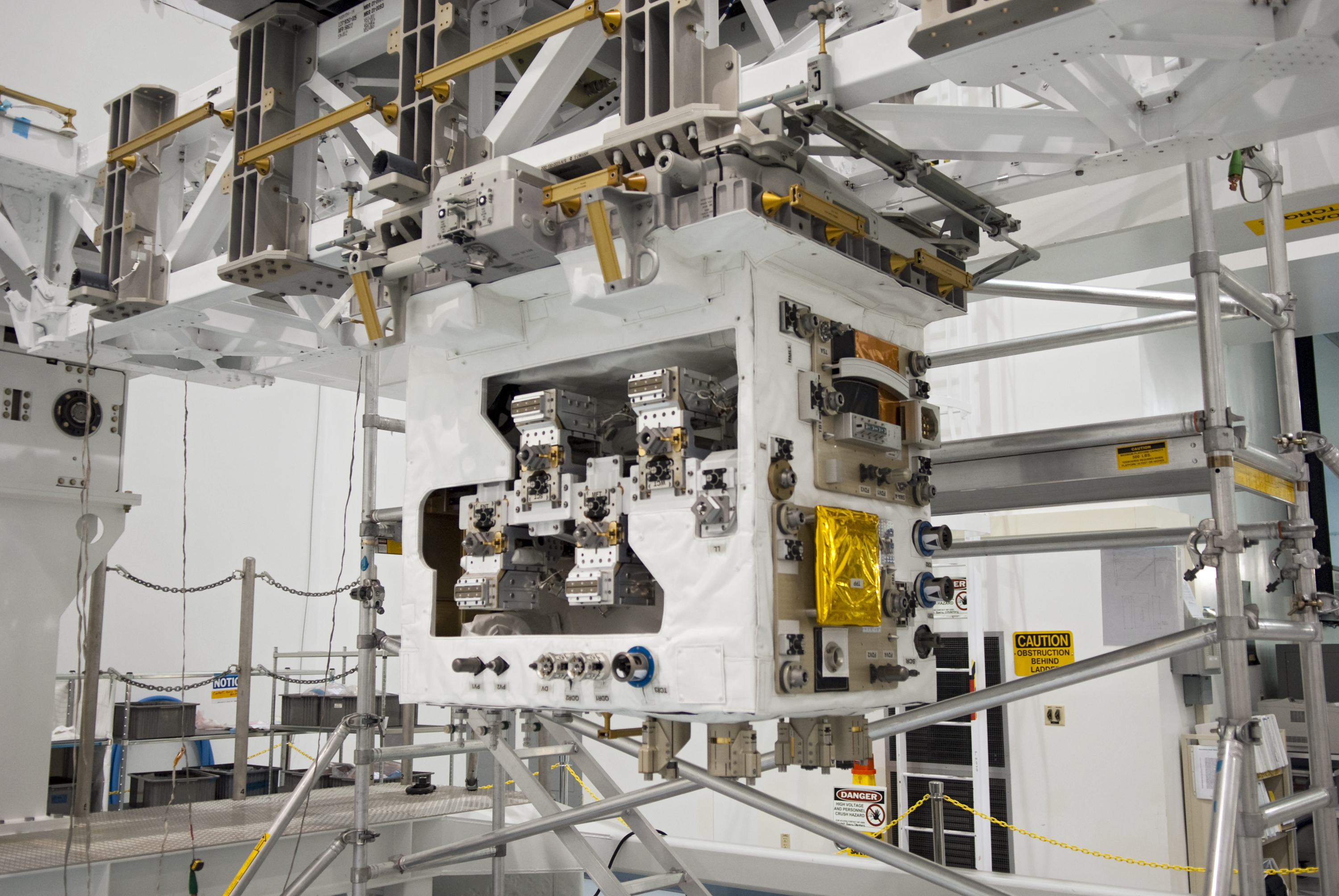 In the Space Station Processing Facility at NASA's Kennedy Space Center in Florida, the Robotic Refueling Mission (RRM) is installed on the Lightweight Multi- Purpose Experiment Support Structure Carrier, or LMC . Technicians are preparing it for its protective cover installation prior to its move into a payload canister. The RRM is being processed to fly aboard space shuttle Atlantis on the STS-135 mission to the International Space Station. Commander Chris Ferguson, Pilot Doug Hurley and Mission Specialists Sandra Magnus and Rex Walheim are targeted to launch in early July, taking with them the Raffaello multi-purpose logistics module packed with supplies, logistics and spare parts. The STS-135 mission also will fly a system to investigate the potential for robotically refueling existing spacecraft and return a failed ammonia pump module to help NASA better understand the failure mechanism and improve pump designs for future systems. STS-135 will be the 33rd flight of Atlantis, the 37th shuttle mission to the space station, and the 135th and final mission of NASA's Space Shuttle Program.